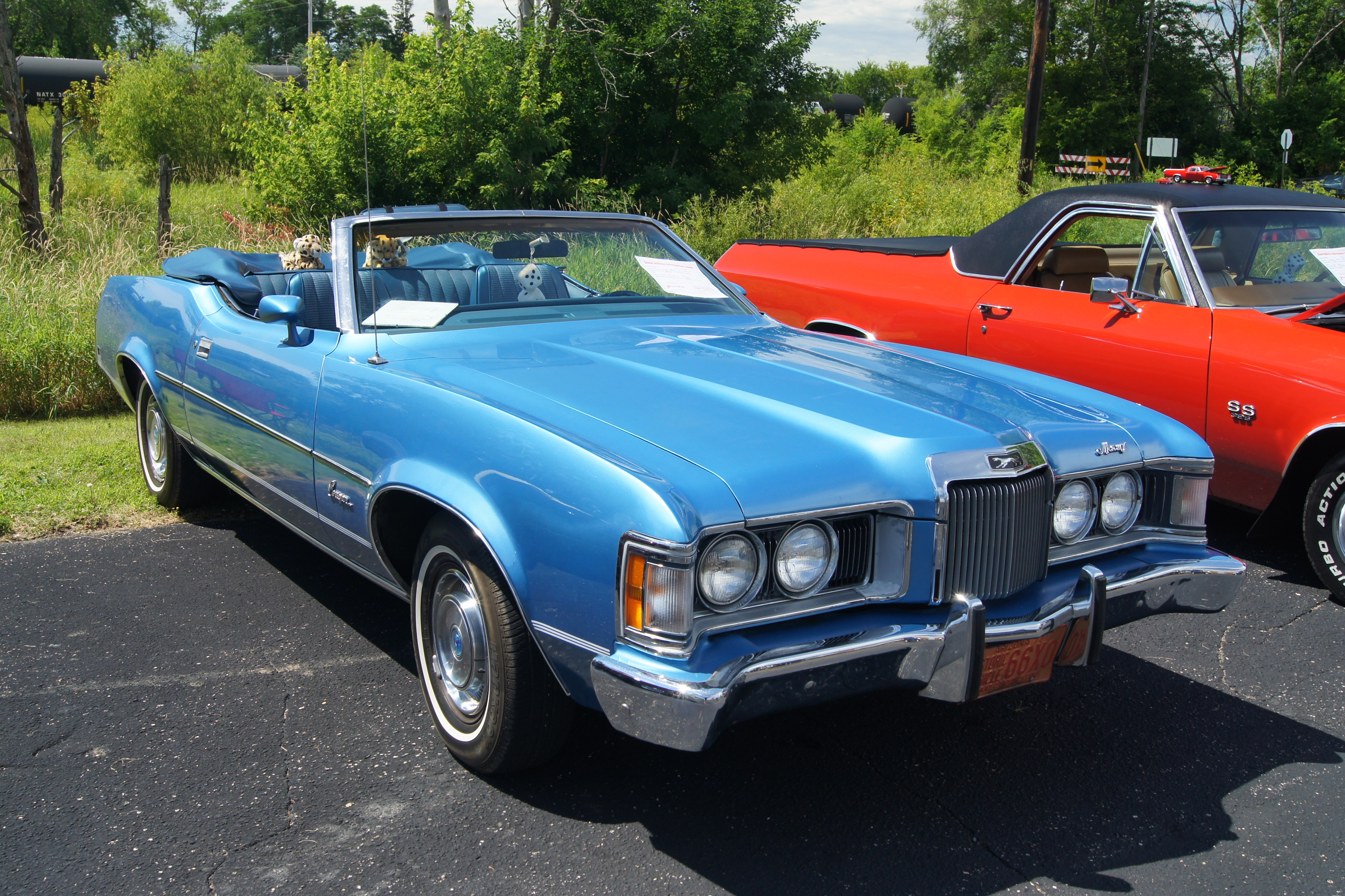 South Haven Days Car Show July 2015 South Haven, Minnesota Click here for more car pictures at my Flickr site.